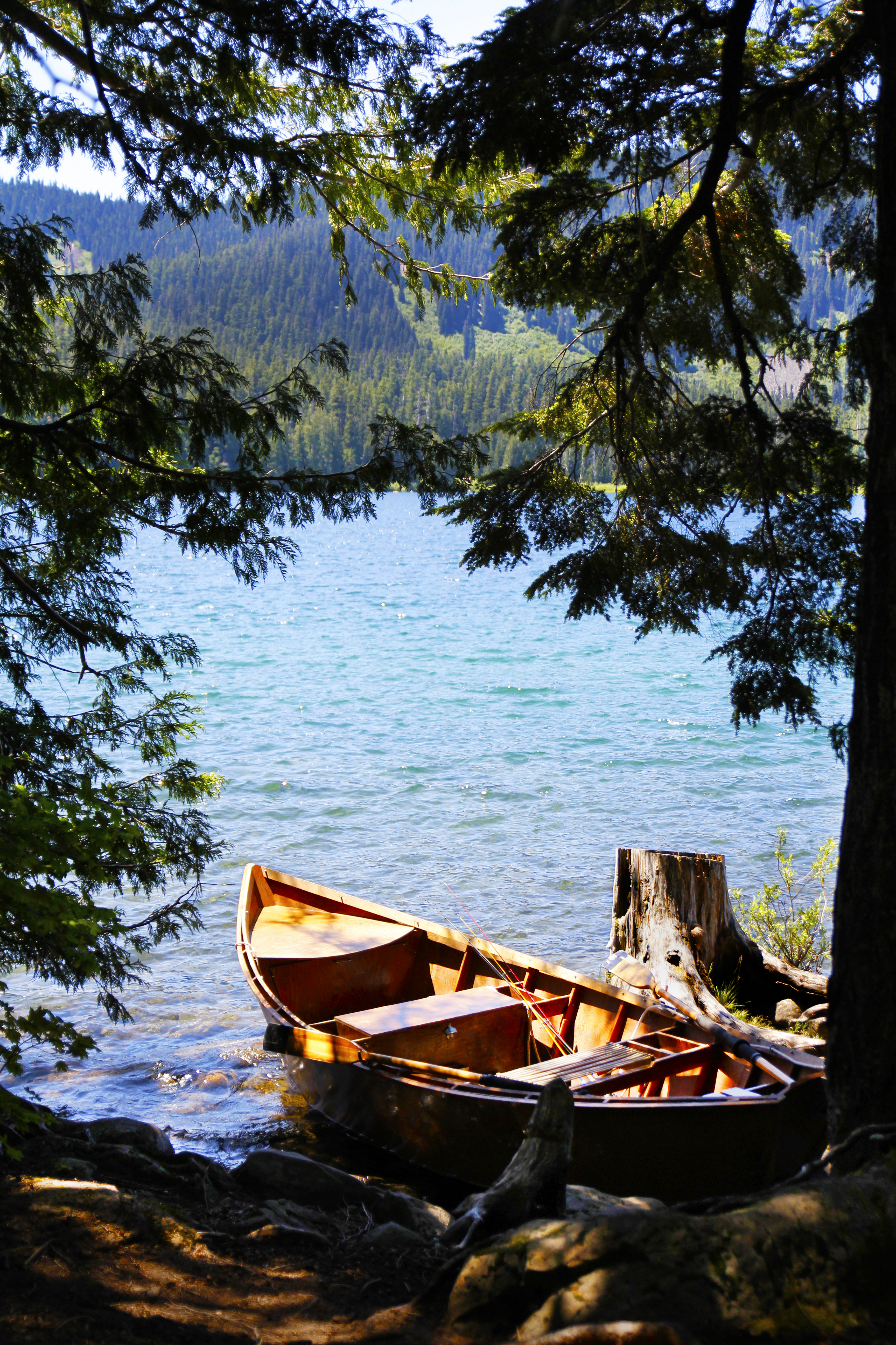 Rowboat at Lost Lake, Oreogon